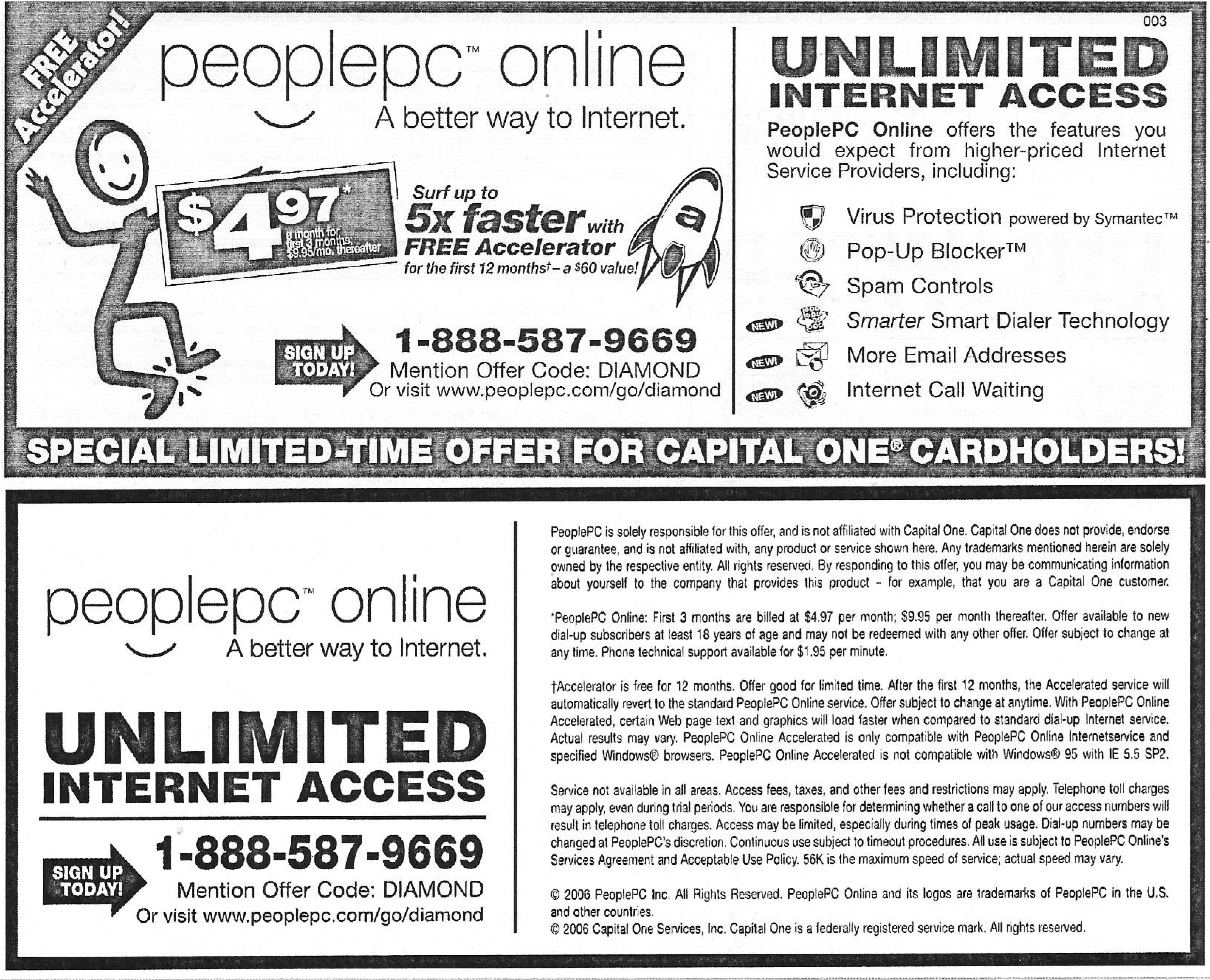 A scanned credit card mailing flyer insert from PeoplePC